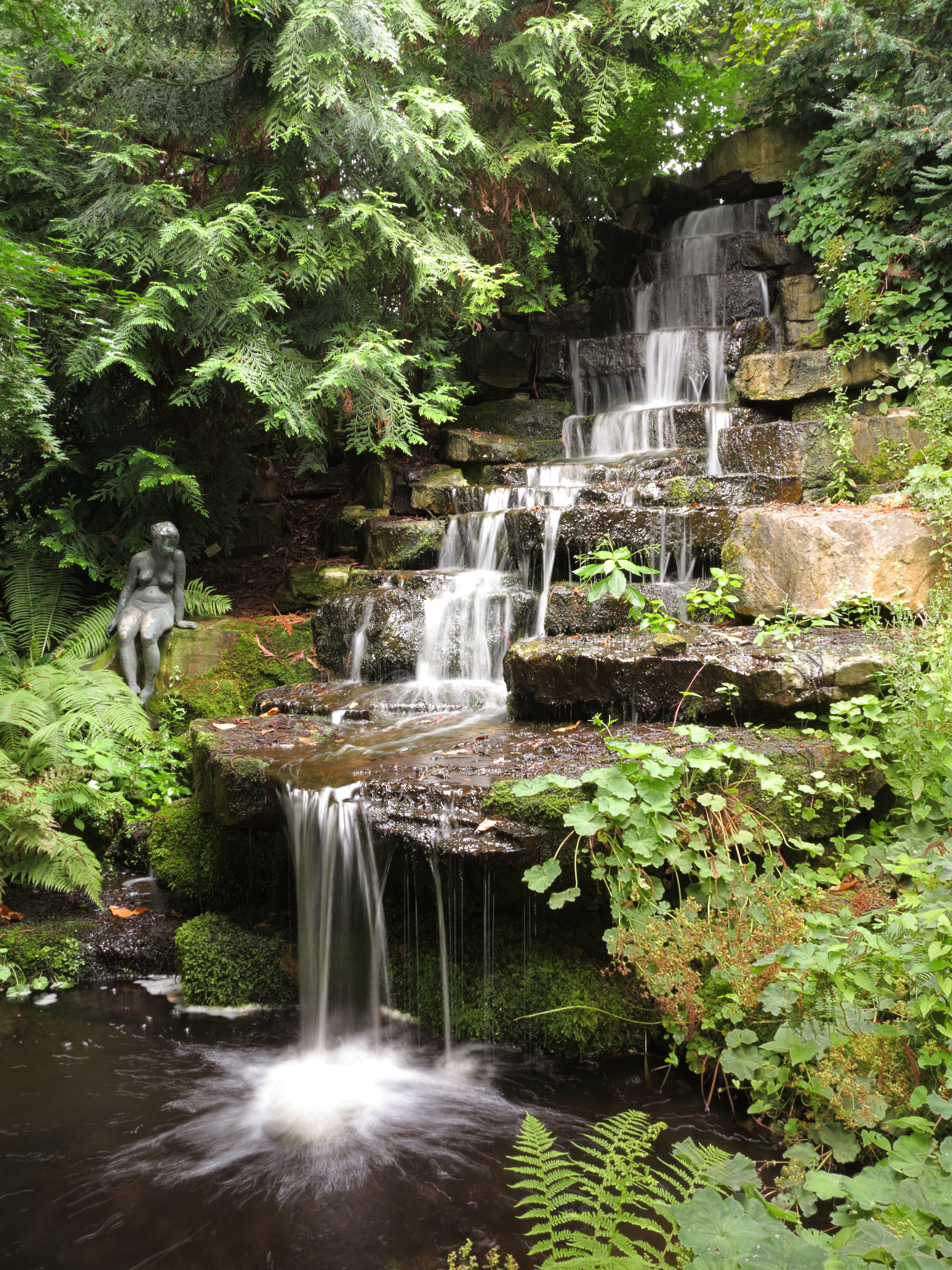 Braunschweig, Germany: an artificial waterfall in the botanical garden built in 1989.